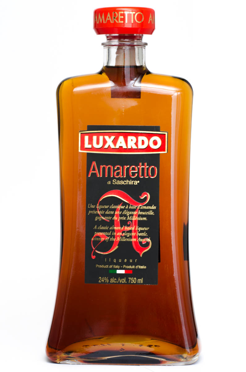 Luxardo Amaretto bottle, 750ml.